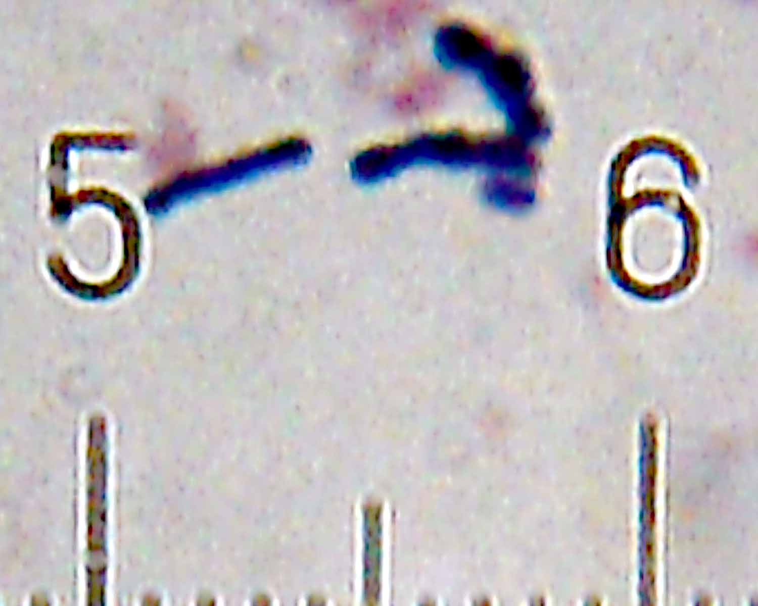 Some bacteria, presumably Bifidobacterium animalis from a sample of Activia® brand yogurt. 100× objective, 15× eyepiece. Numbered ticks are 11 µM apart. The scale of the full-sized version of this image is such that each pixel represents a 0.01-µM square. Gram stained.